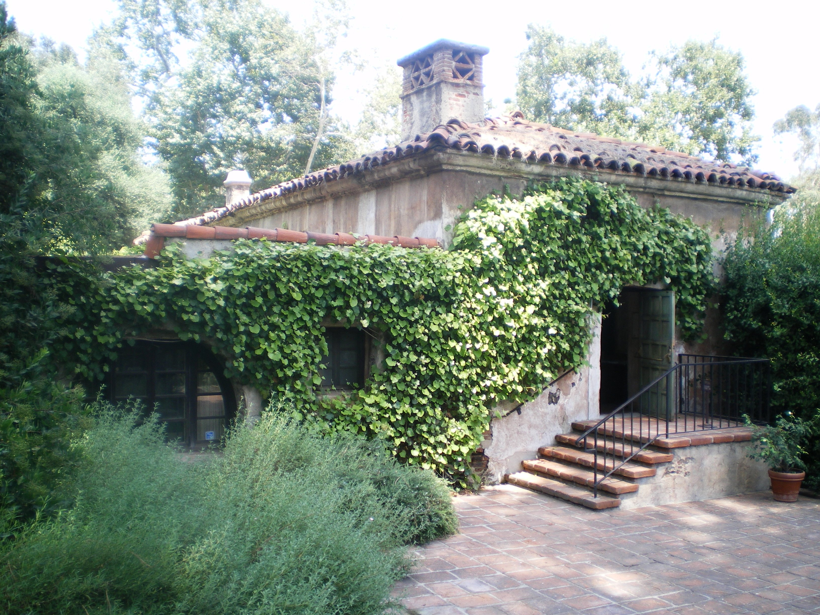 El Molino Viejo (The Old Mill), Old Mill Road, San Marino, California